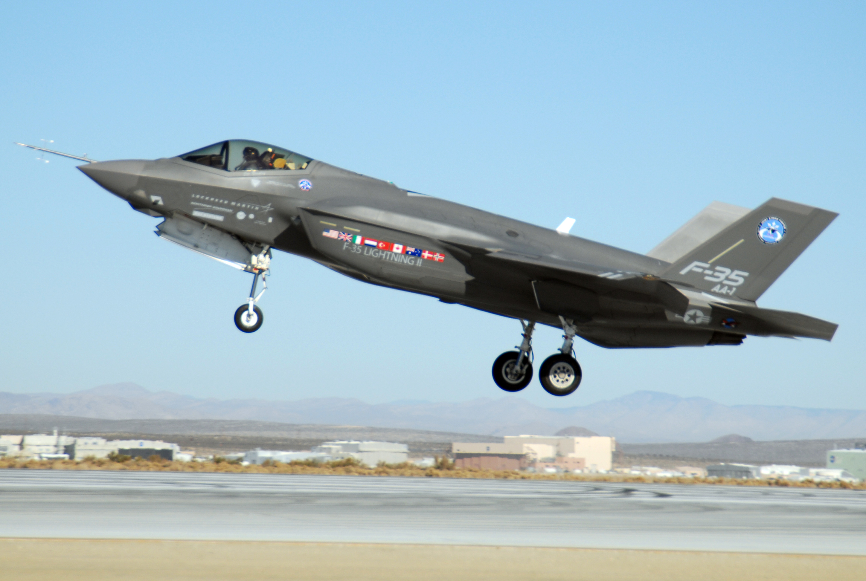 An F-35 Lightning II, marked AA-1, lands Oct. 23 at Edwards Air Force Base, Calif. The F-35 Integrated Test Force staff concluded an air-start test.